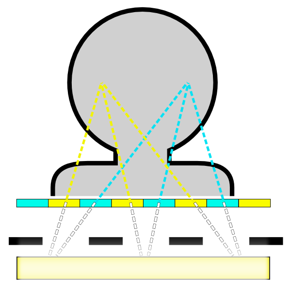 LCD schematic (3D view)